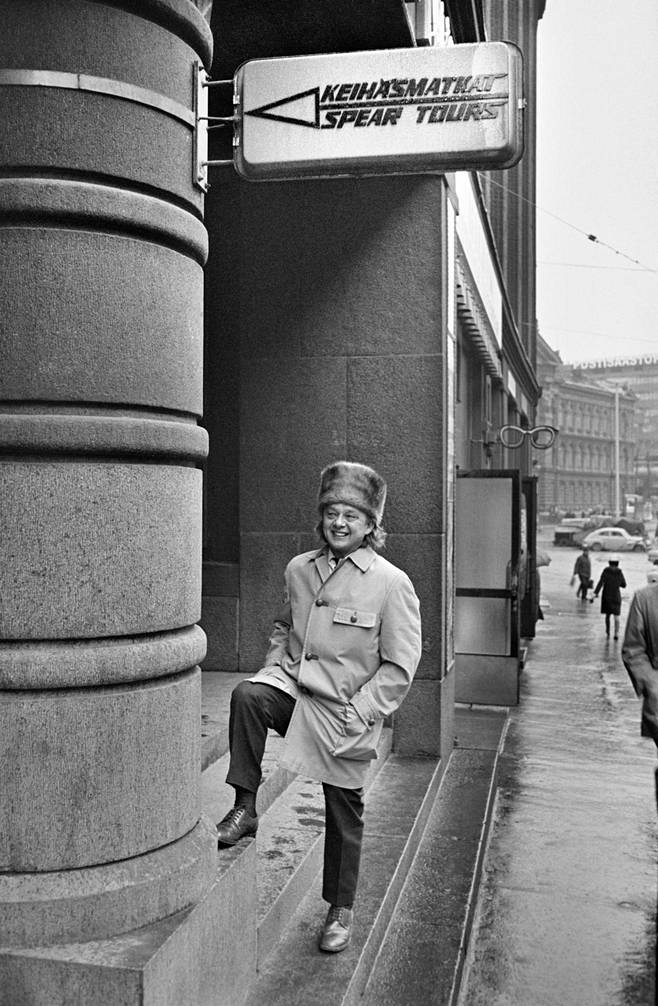 Photograph of the Finnish entrepreneur Kalevi Keihänen in front of his travel agency Keihäsmatkat – Spear Tours at Kaisaniemenkatu, Helsinki.